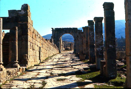 Ruines romaines de Djemila, Algérie